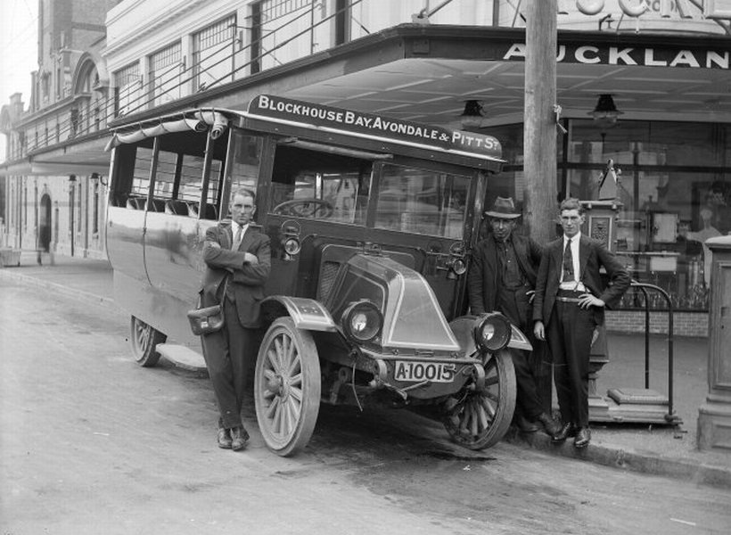 A public bus in Auckland City, New Zealand. The bus is stopped at the corner of Beresford and Pitt Street in the Auckland CBD. Extended information on origin webpage reads: Blockhouse Bay, Avondale and Pitt Street bus and driver, Auckland [ca 1910s] / Reference number: 1/2-000769-G / 1 b&w original negative(s). Dry glass plate negative 4.5 x 6.5 inches. Horizontal image. / Part of Price, William Archer, d 1948 :Collection of post card negatives (PAColl-3057) Photographic Archive / Scope and contents: View of a bus which ran between Blockhouse Bay, Avondale and Pitt Street, Auckland, with the driver and two other unidentified men standing alongside. The bus has an International bus chassis.